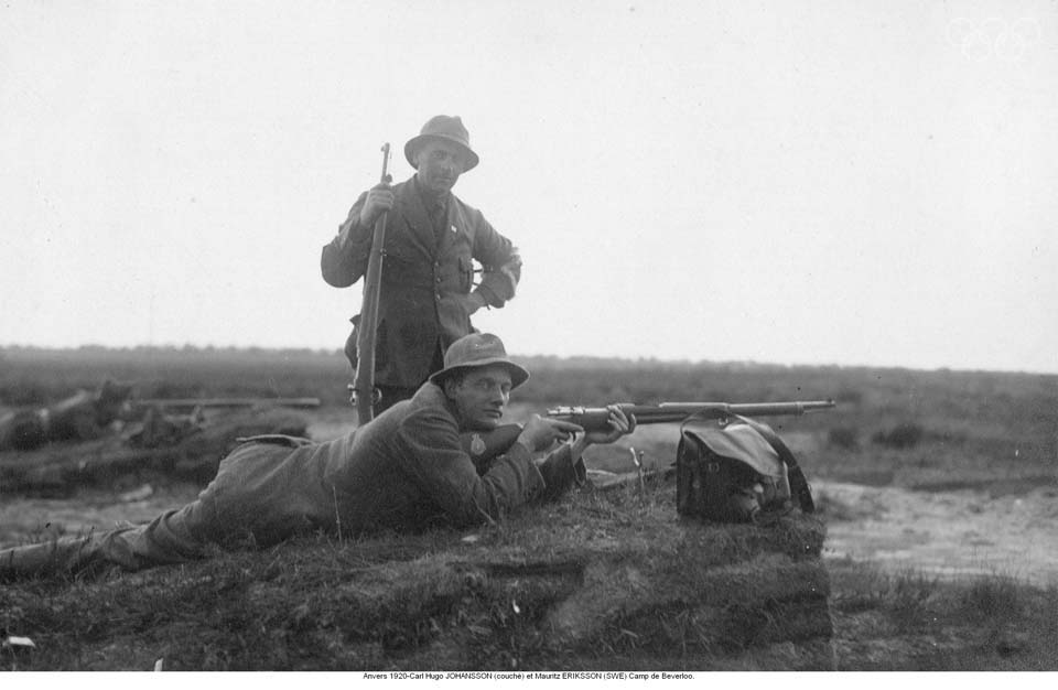 Antwerp 1920-Carl Hugo JOHANSSON (lying) and Mauritz ERIKSSON (SWE), Beverloo Camp.